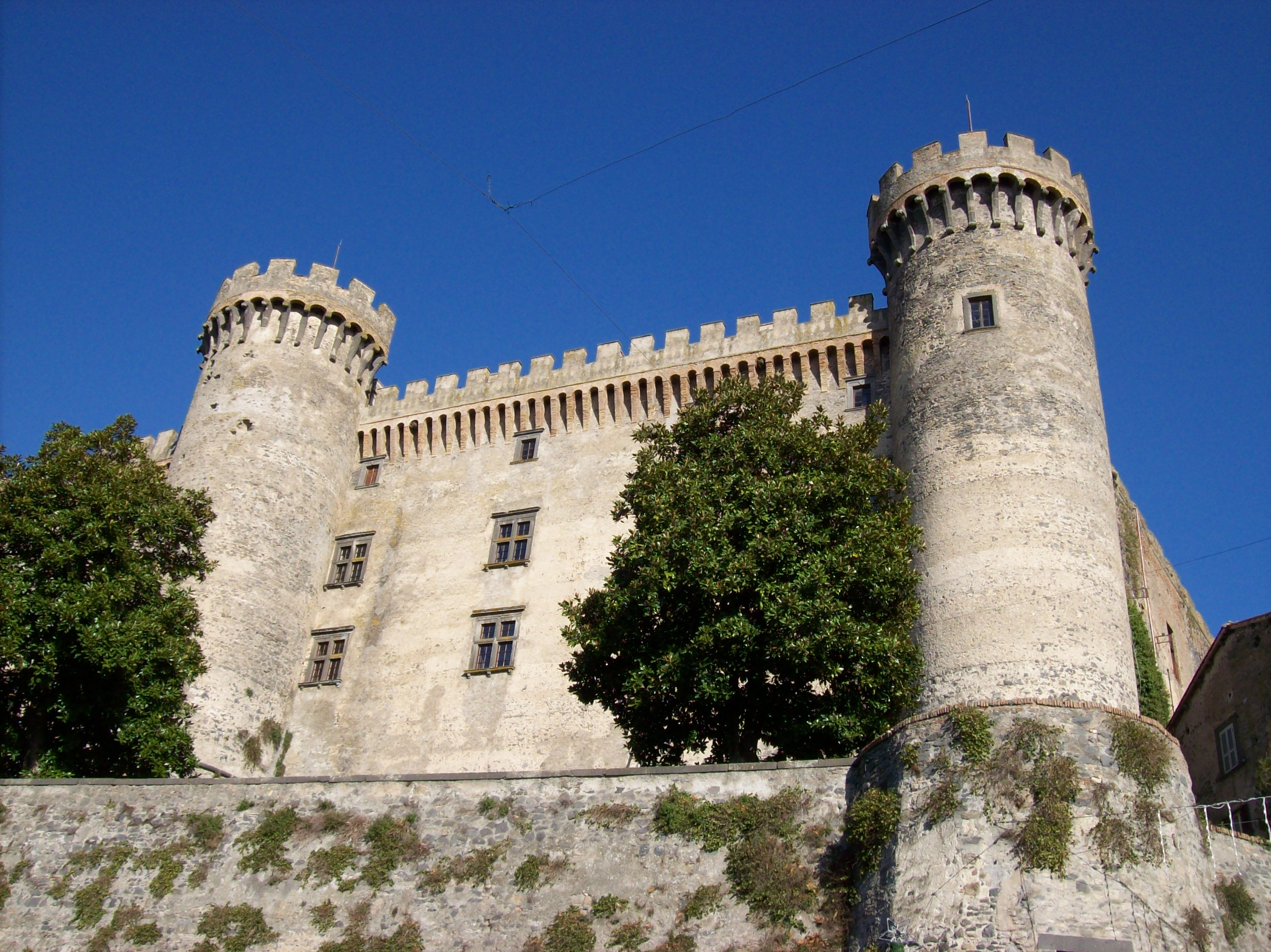 Orsini-Odescalchi castle in Bracciano (province of Rome, Italy)